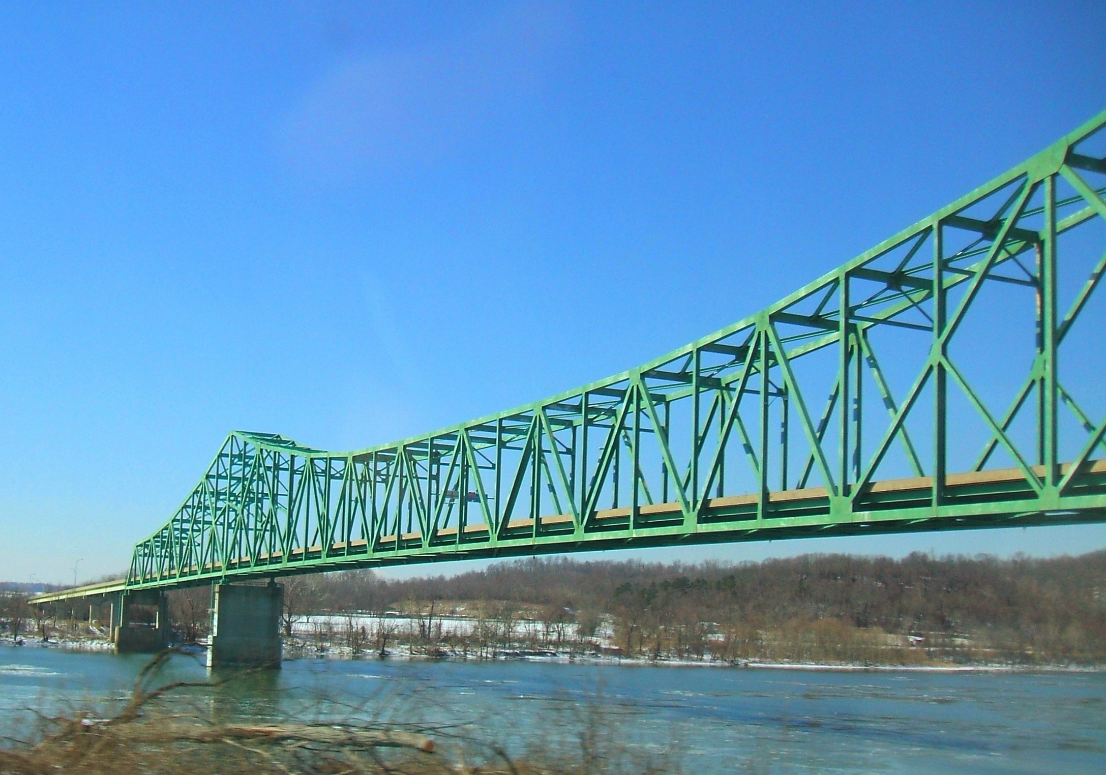 The Ravenswood Bridge carrying US 33 over the Ohio River at Ravenswood, West Virginia. Self made photo.